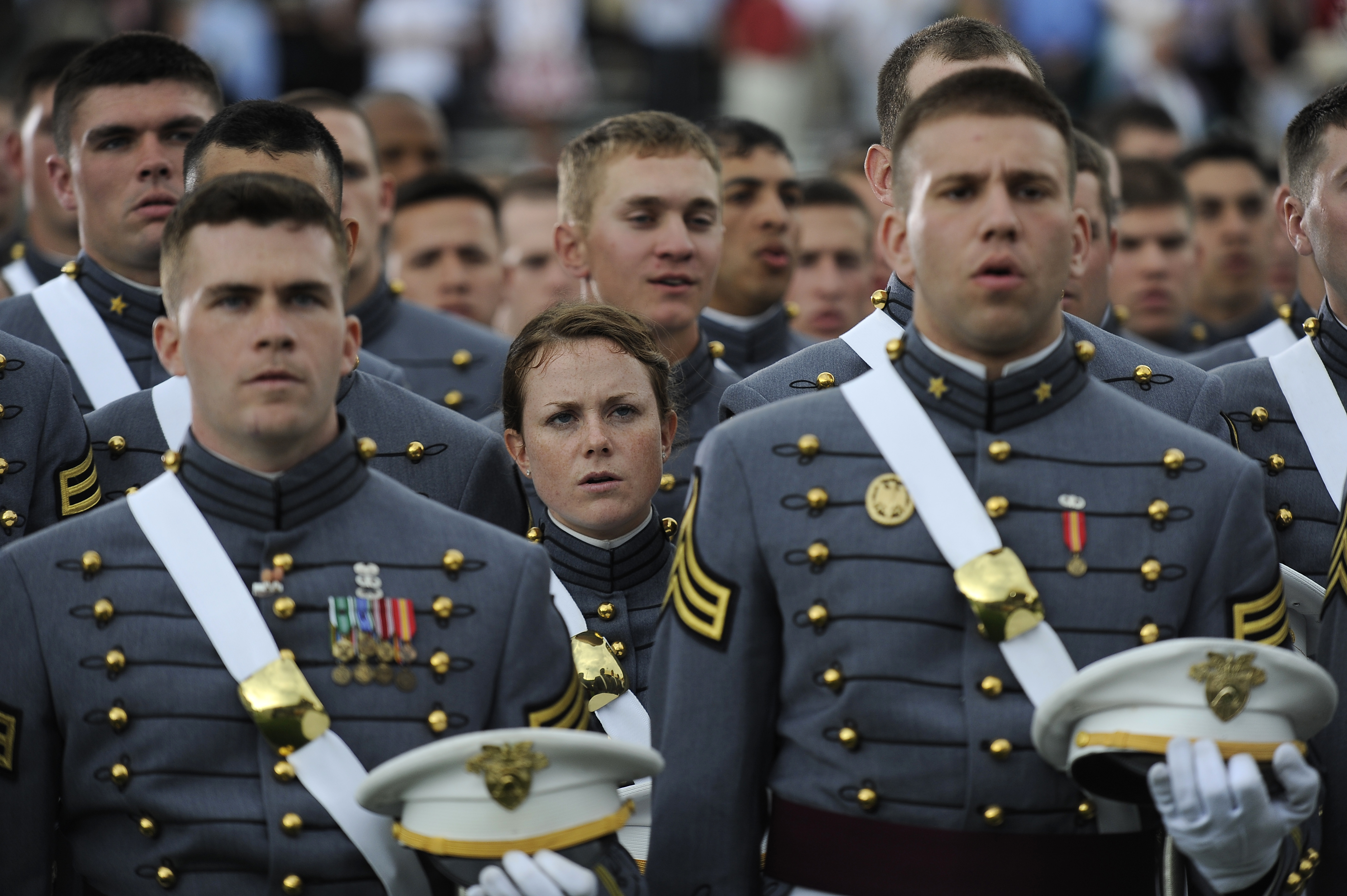 Cadets recite a pledge as they prepare to graduate at U.S. Army Military Academy at West Point, N.Y., May 23, 2009.